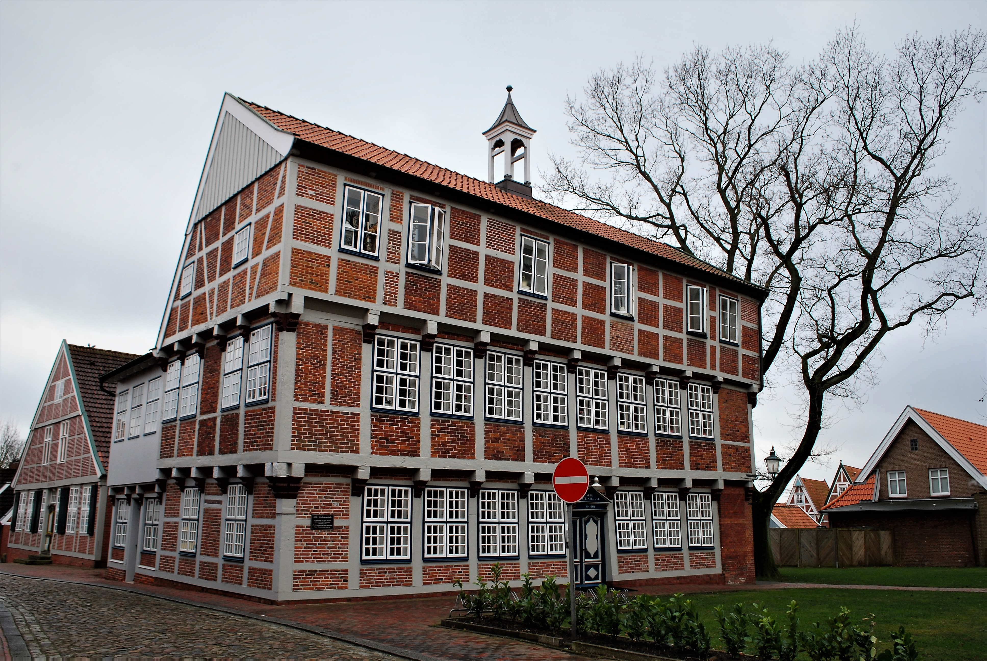 Otterndorf is a town on the coast of the North Sea in the region of Lower Saxony, Germany